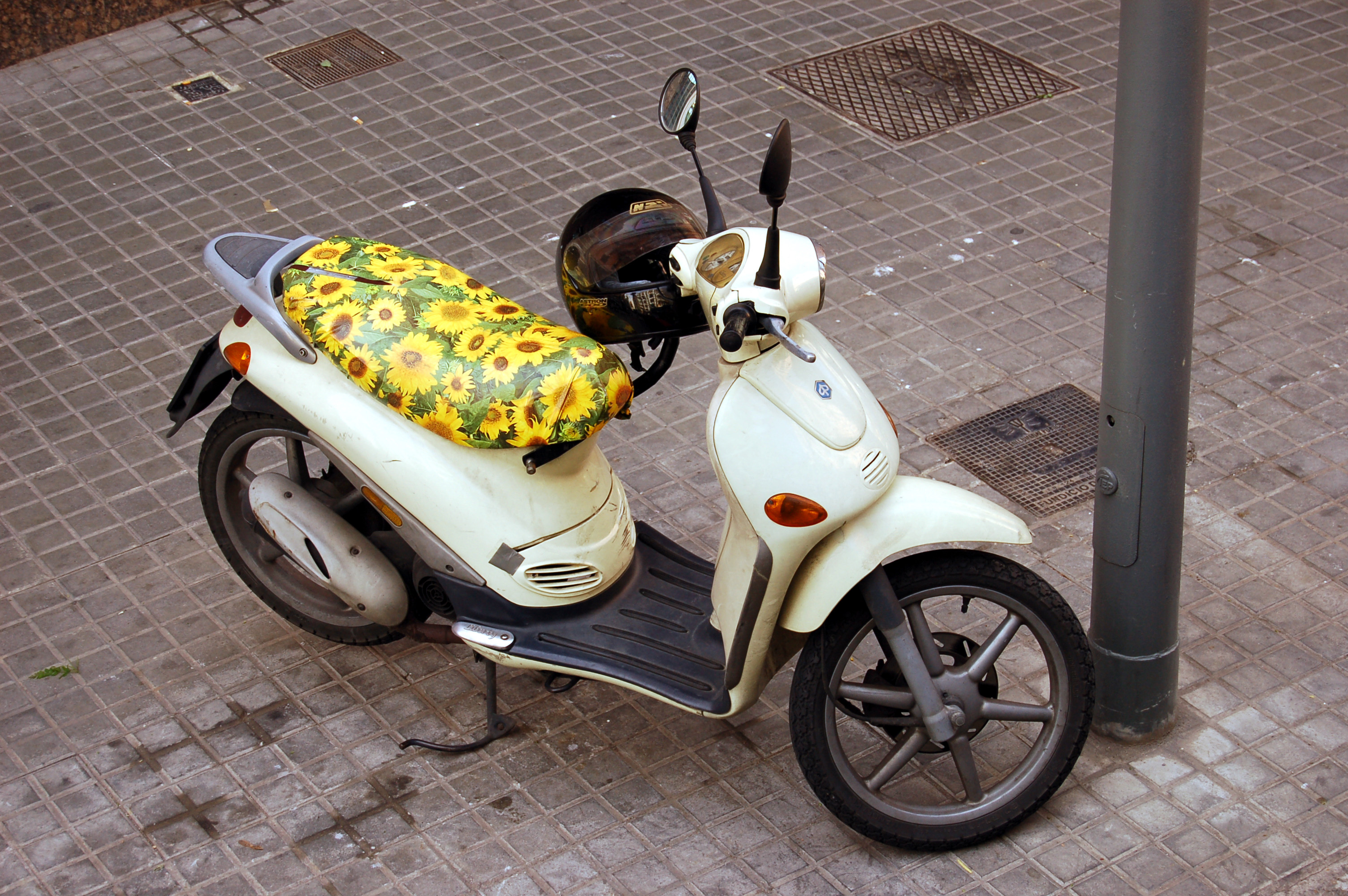 Fancy scooter @ Barcelona